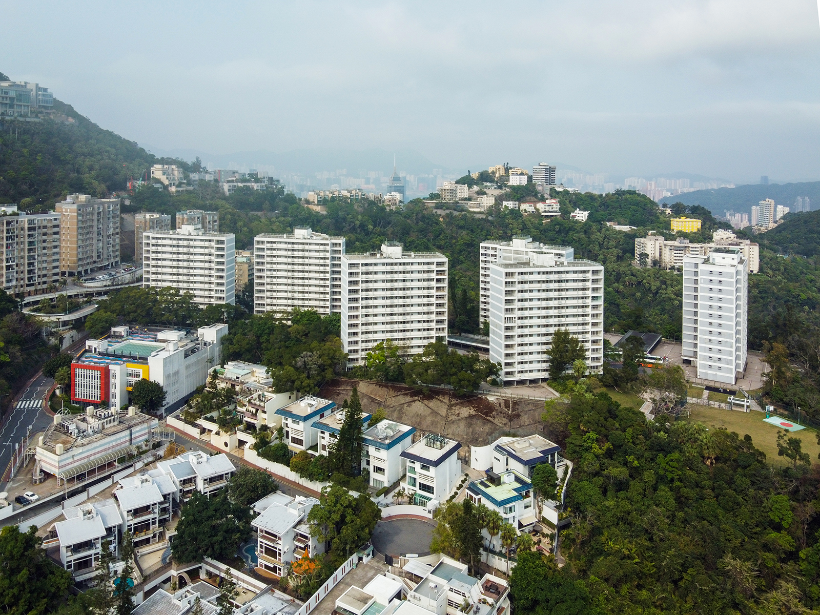 Mansfield Road Quarters